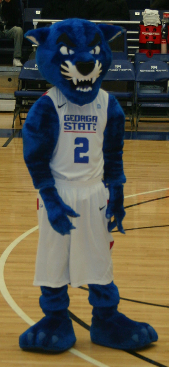 Georgia State Universities athletic mascot Pounce, taken at a home game.